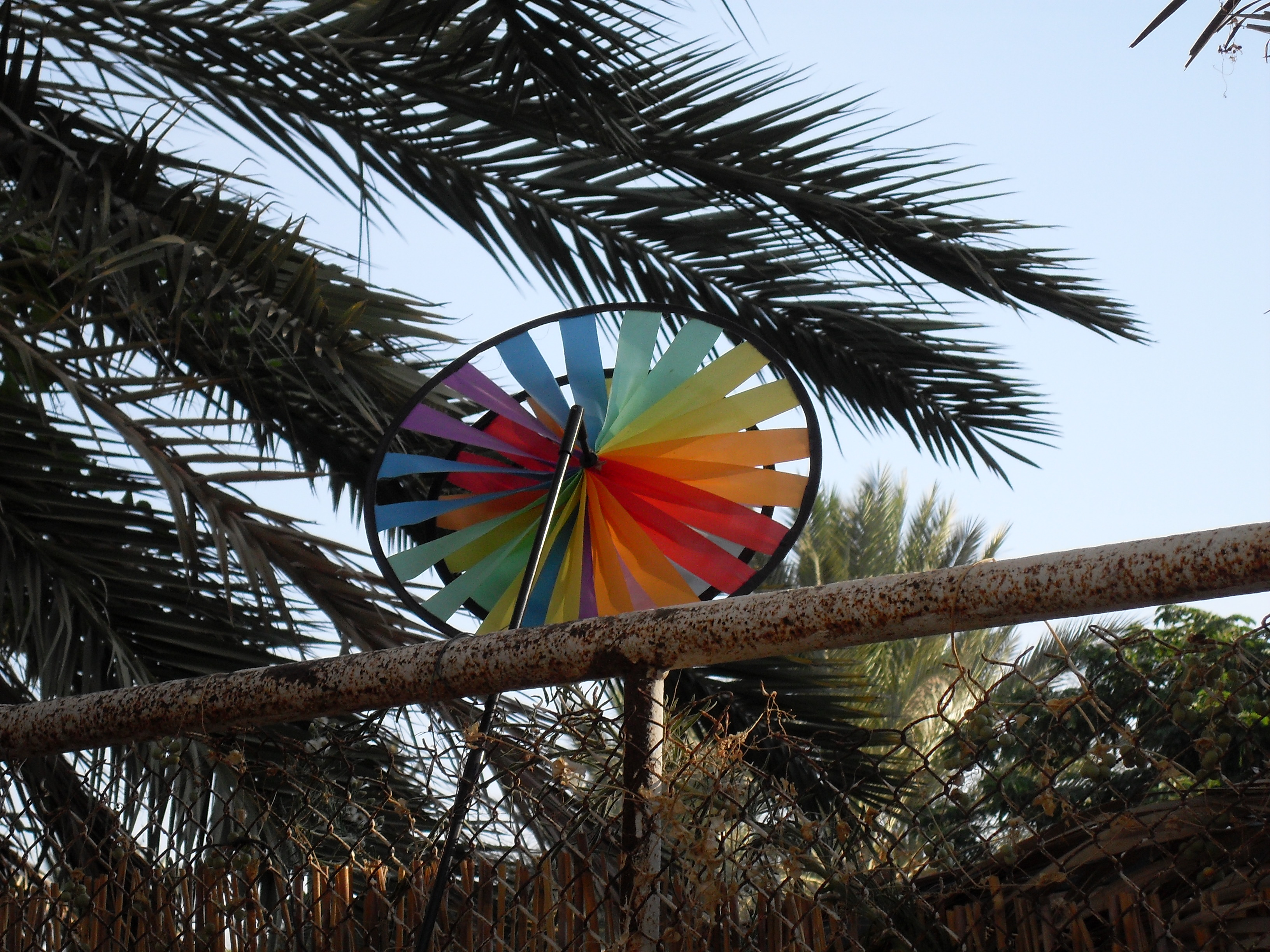 Israel Ramot (Golan) Rainbow Pinwheel